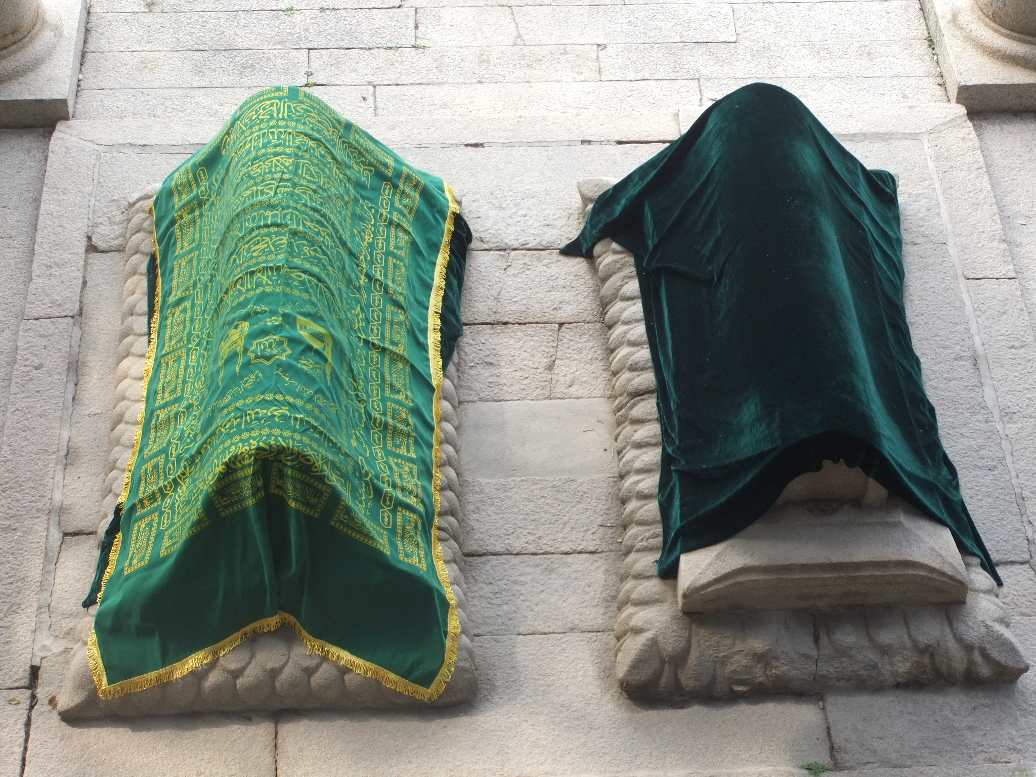 The tombs of the "Two Worthies", two early Islamic missionaries that supposedly came to Quanzhou to propagate Islam in the 7th century. They are the centerpiece of Lingshan Islamic Cemetery (Lingshan Park) in Quanzhou. There are a number of stelae next to them, erected at various times from the Yuan Dynasty to the present day.